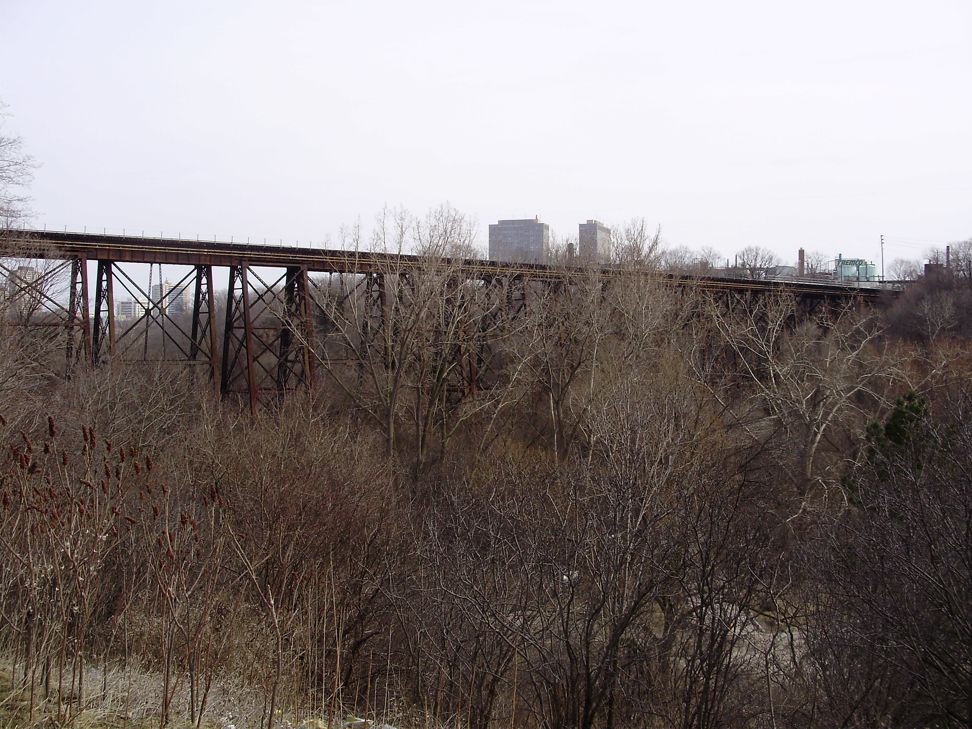 This railway bridge spans the part of the Don Valley containing E.T. Seton Park, just east of the intersection of Leslie Street and Eglinton Avenue East, in Toronto, Ontario, Canada.